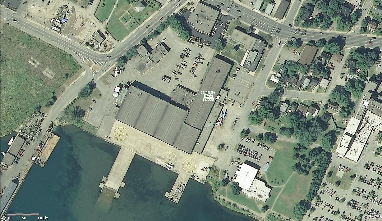 Satellite image of the Canadian Bushplane Heritage Centre in Sault Ste Marie, Ontario. Scale of 1:2,257. Scale bar at the upper right removed/smudged using GIMP.